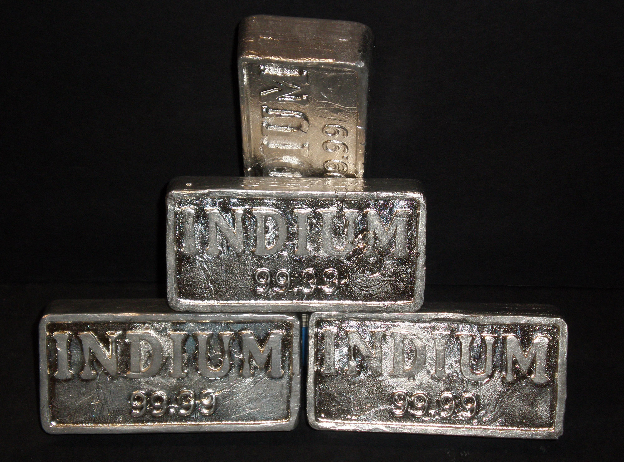 Pure indium bars, roughly one pound each.